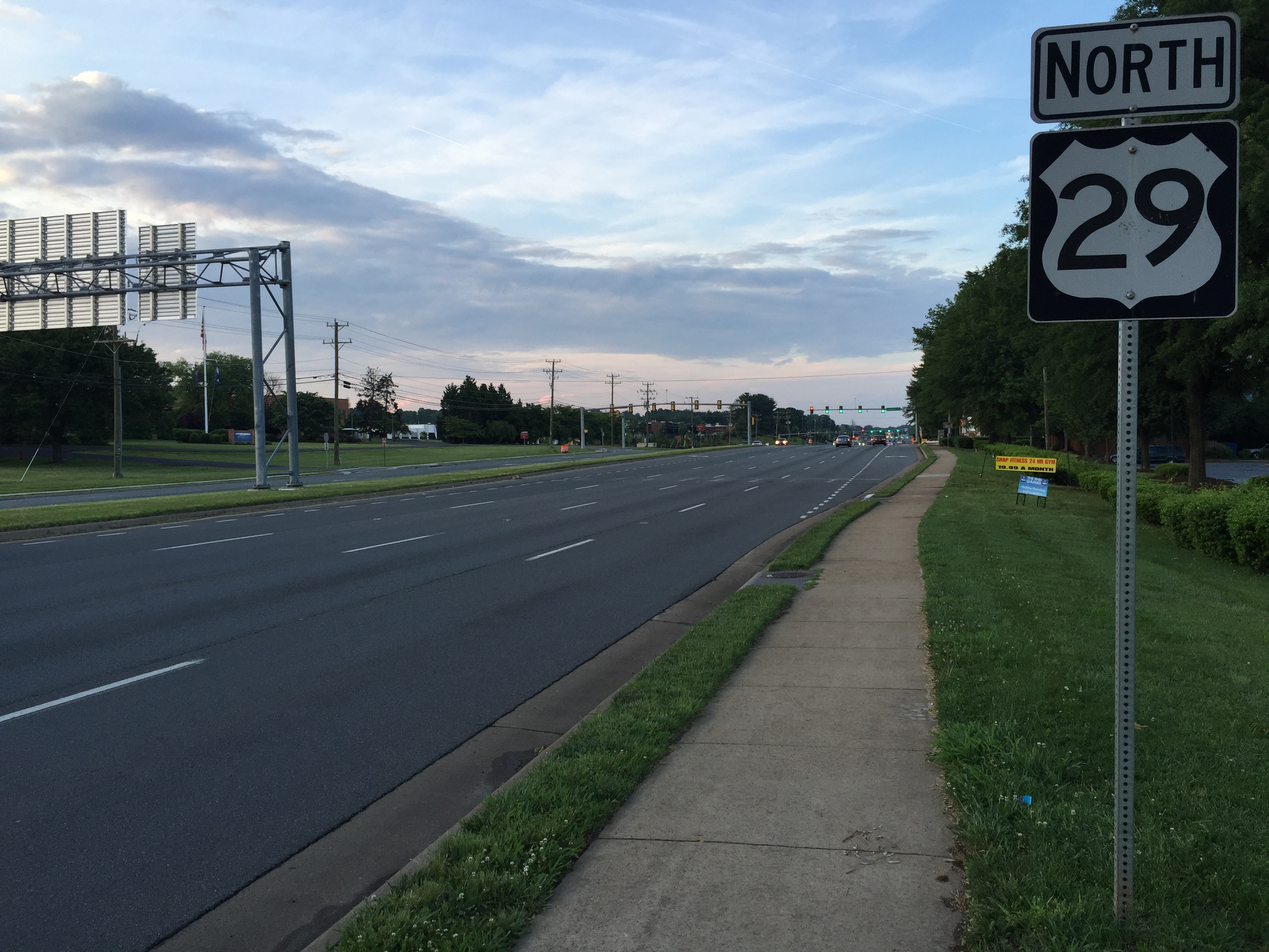 View north along U.S. Route 29 (Seminole Trail) near Zan Road in Charlottesville, Virginia